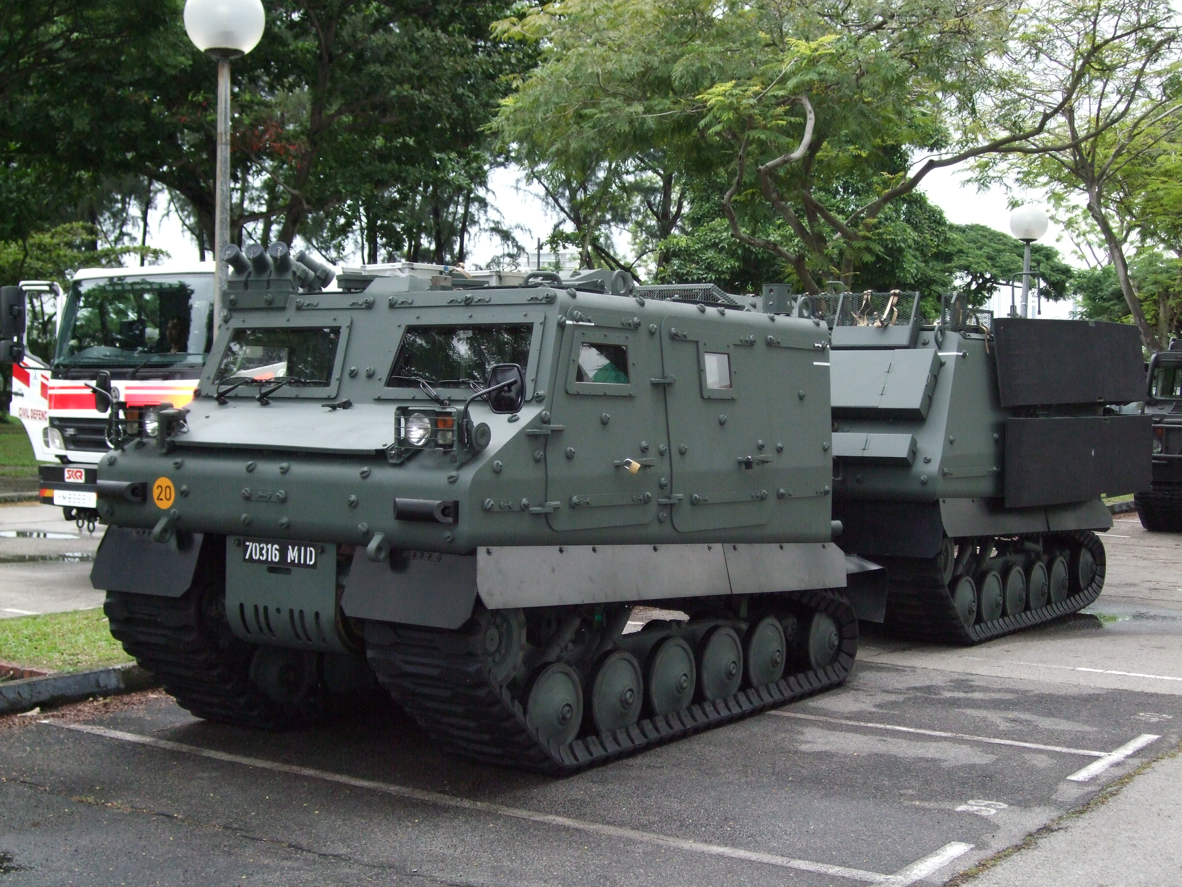 Bronco ATTC, National Day Parade 2010 Combined Rehearsal 3.